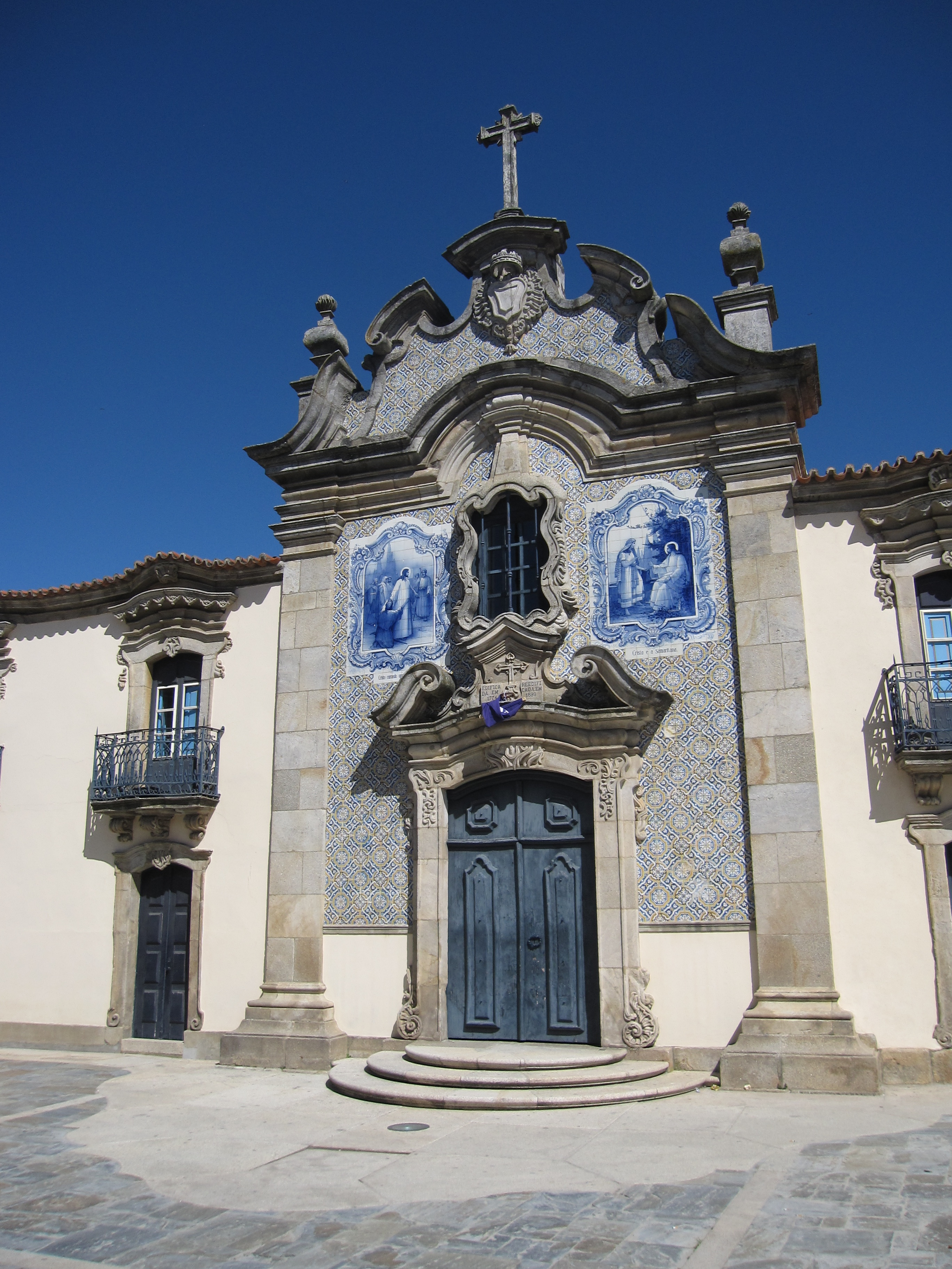 This file was uploaded for Wiki Loves Monuments in Portugal with the unique identifier 97007190.